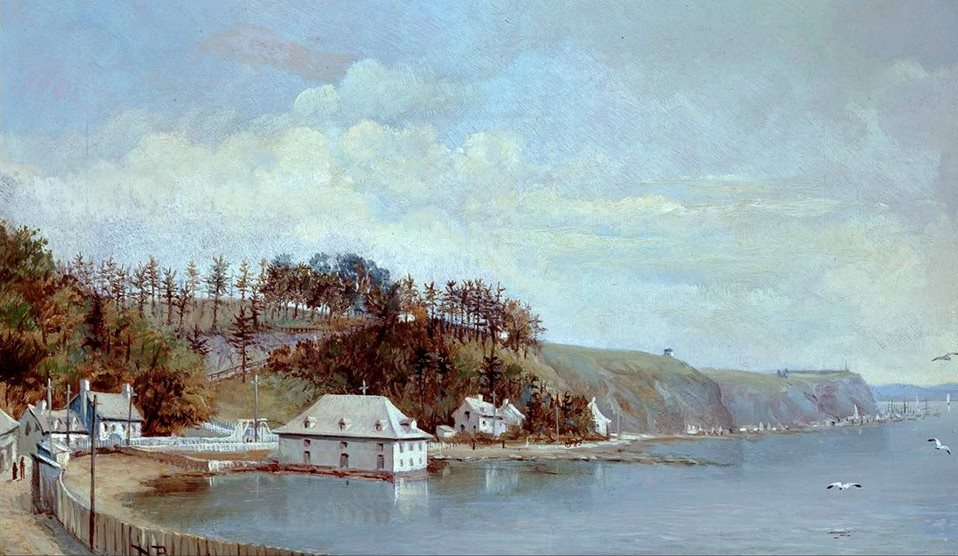 Painting, Wolfe's Cove, Quebec, Henry Richard S. Bunnett, 1887, Oil on canvas, 24.5 x 35 cm